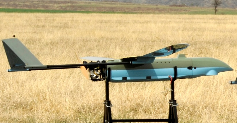 Georgian Unmanned Aerial Vehicle